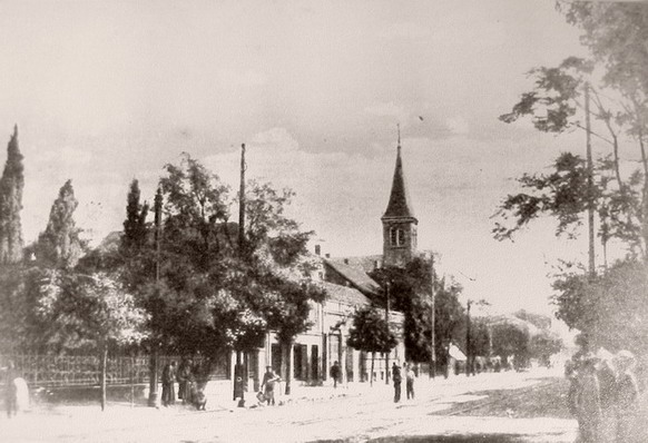 Mikheil ave. (Now David Agmashenebeli Ave.) and Deutsche kirche